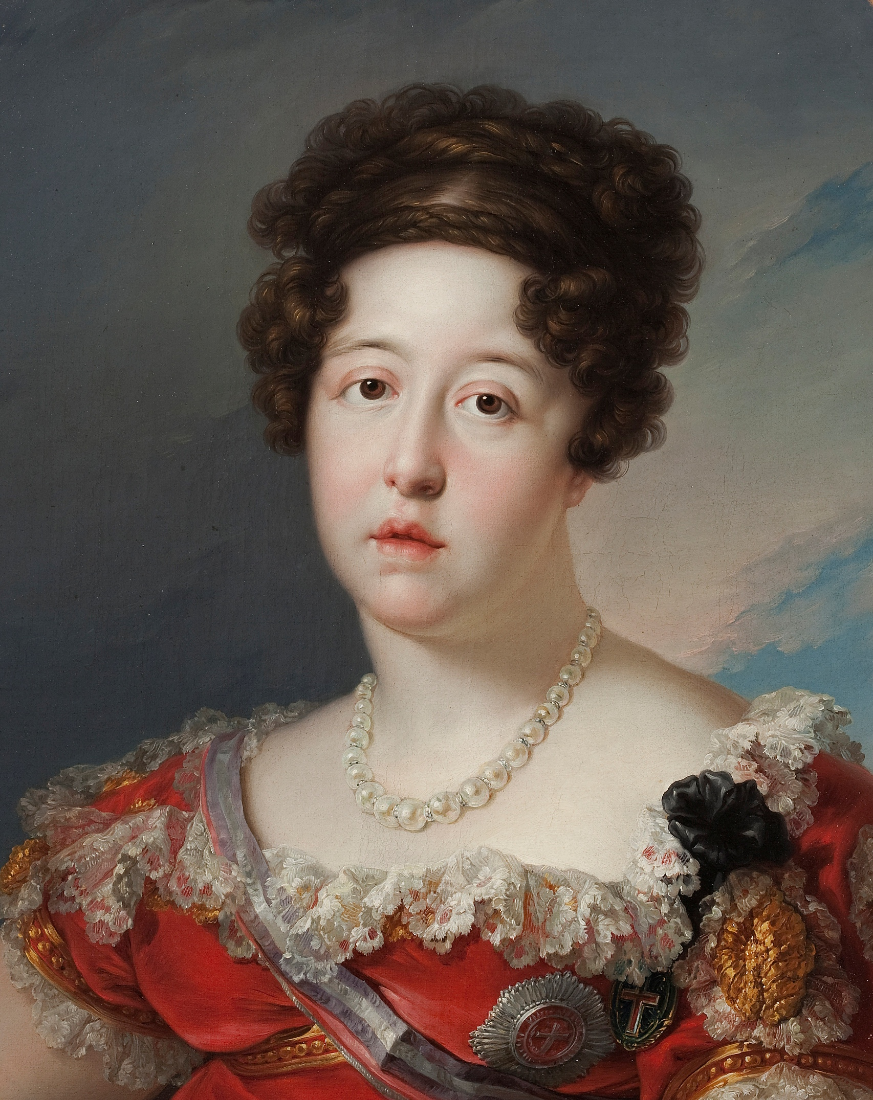 Portrait of Portuguese infanta D.ª Maria Isabel of Portugal (1797-1818)